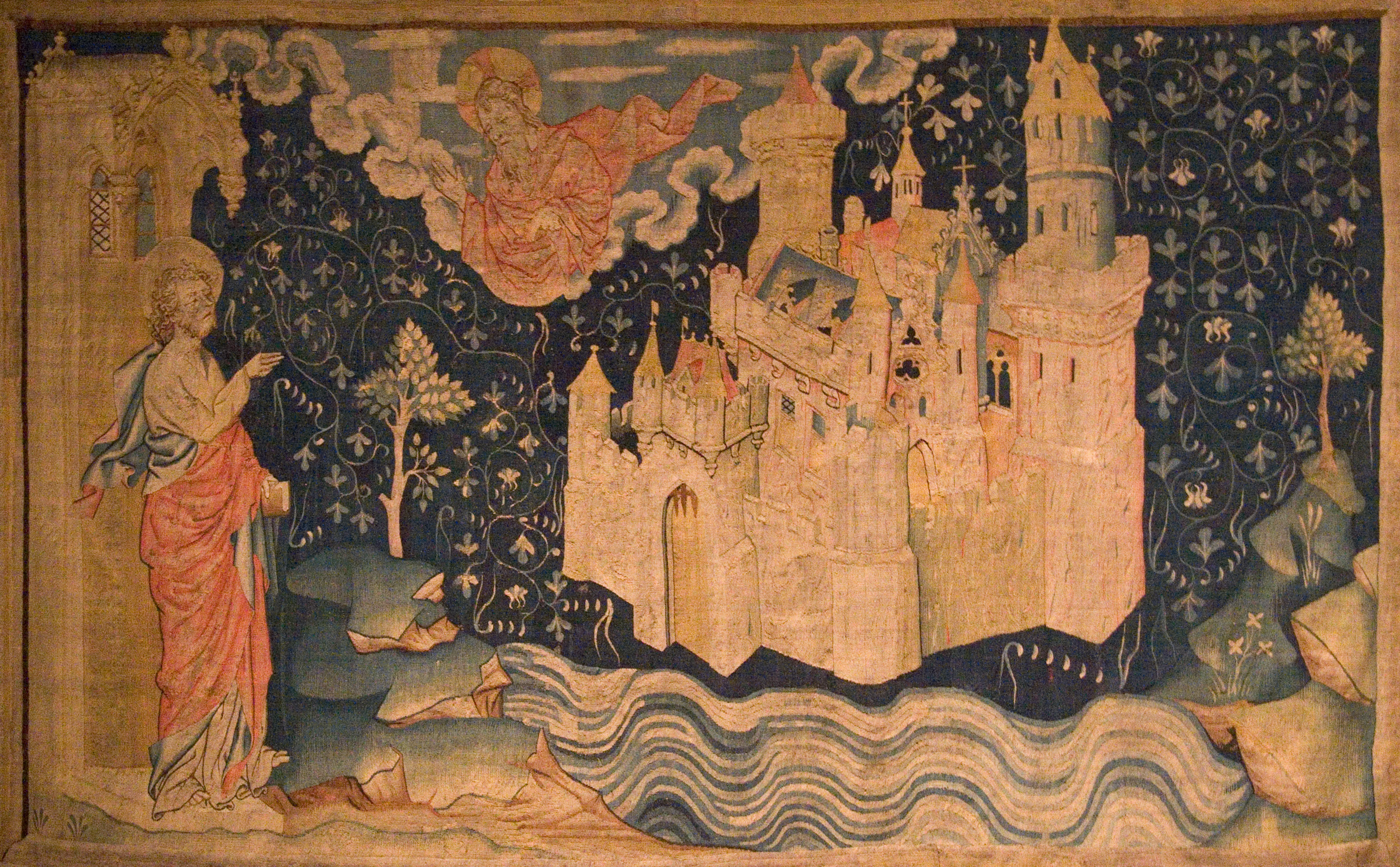 La nouvelle Jérusalem (Tapisserie de l'Apocalypse) / The New Jerusalem (Tapestry of the Apocalypse)